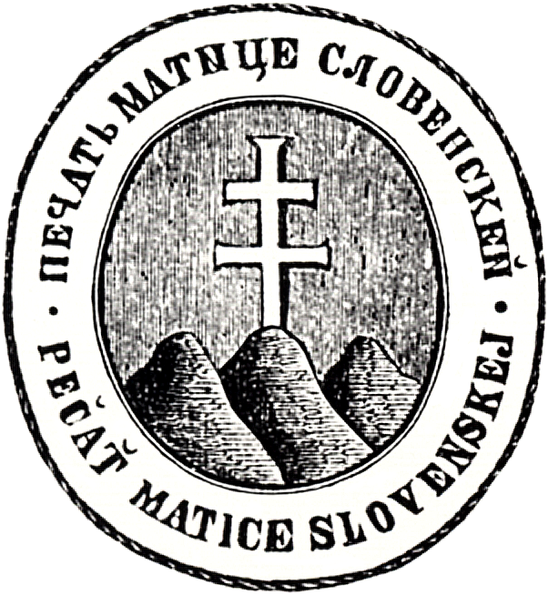 Seal of Matica slovenská